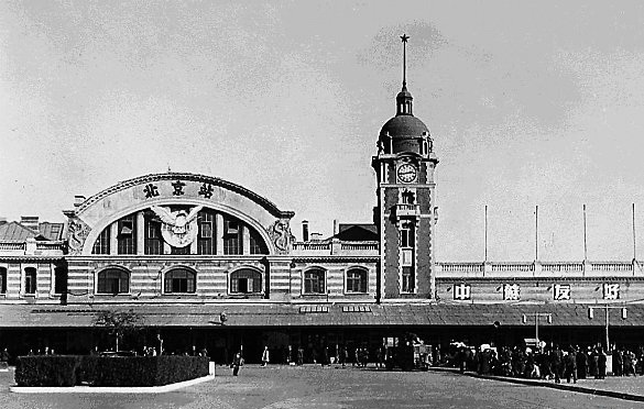 Beijing Railway Station in Qianmen